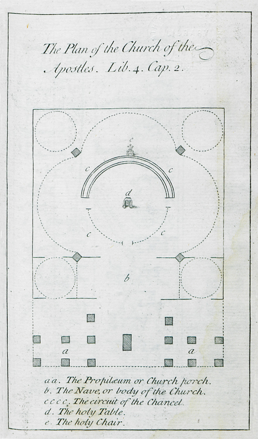 The Antiquities of Constantinople, written originally in Latin by Petrus Gyllius, transalted into English by John Ball, London 1729